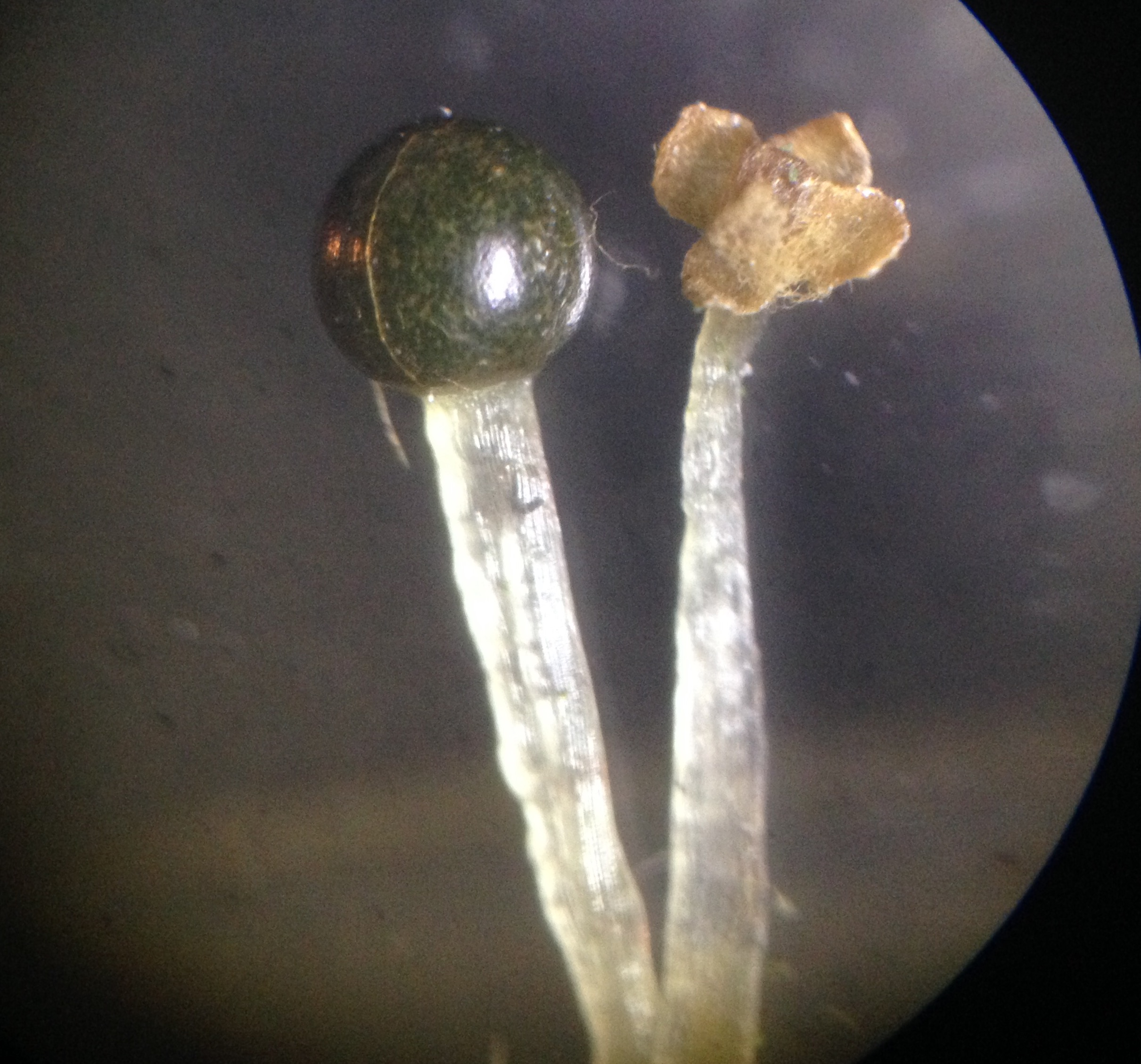 Pellia epiphylla young and old sporophyte